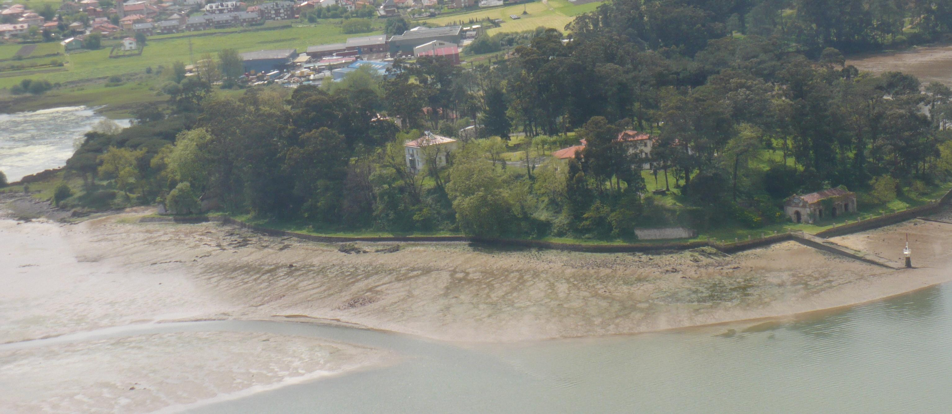 Pedrosa Island, located in the Bay of Santander (Cantabria)